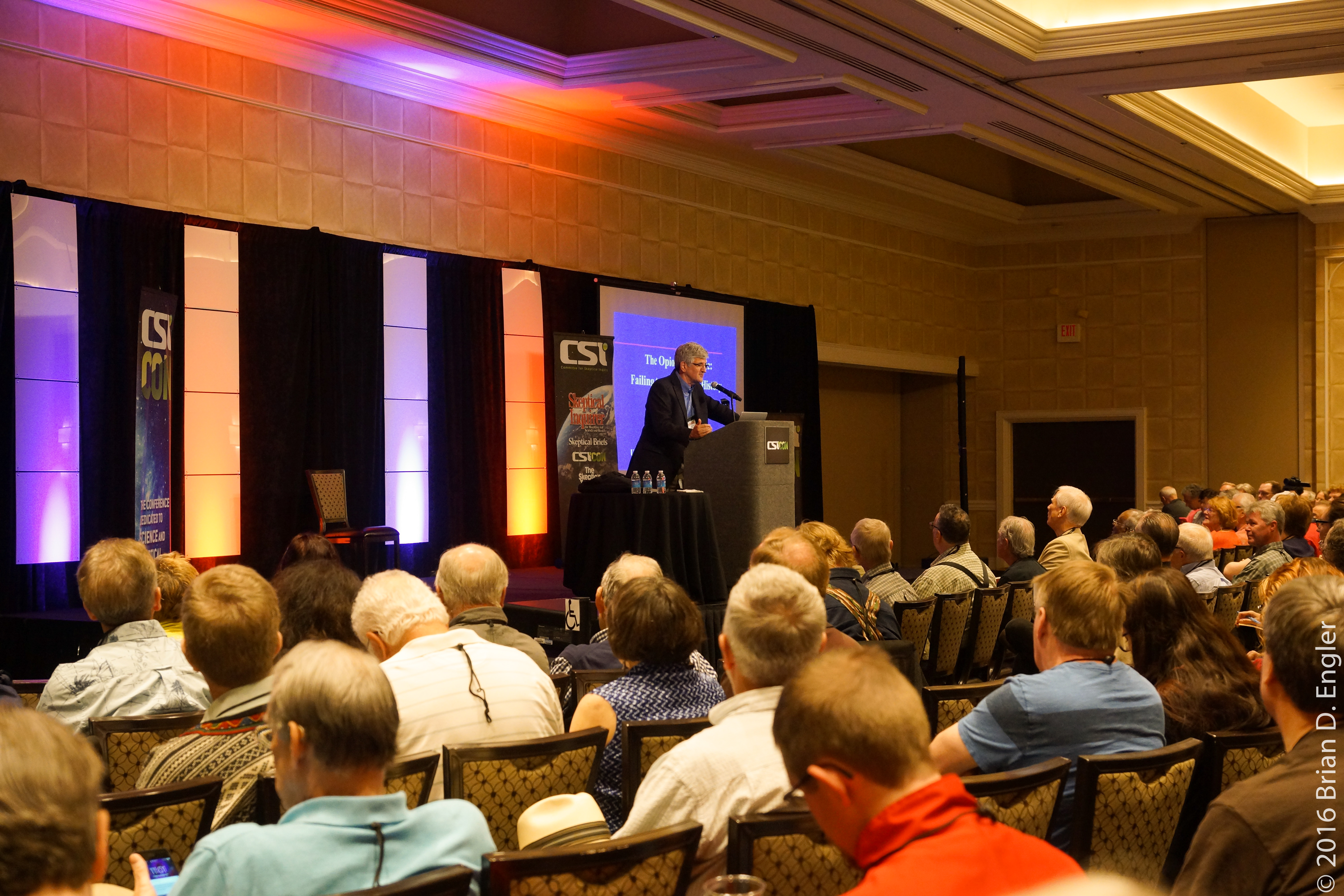 Dr. Paul Offitt addresses "Opioids" at CSICon Las Vegas on October 28, 2016.